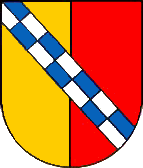 Coat of Arms of Dorstadt